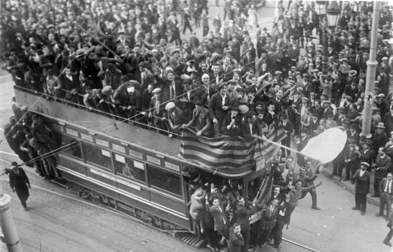 This description has been identified as biased or incorrect: Error in caption: This pictures shows a tram in Barcelona, not Madrid. The flag wrapped around the tram is Catalonia's senyera.Revolutionstaumel in der neuen Republik Spanien! Republikanische Studenten und Arbeiter durchfahren auf einer mit den Farben der Republik geschmückten Strassenbahn die Hauptstadt Madrid.